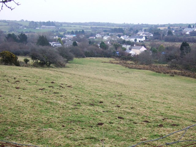 Common Moor The small village lies in the valley of a tributary of the River Fowey on the southeastern edge of Bodmin Moor, and straddles a gridline - the further buildings are in SX2469. Taken from near South Trekeive on the lane to Siblyback Lake.